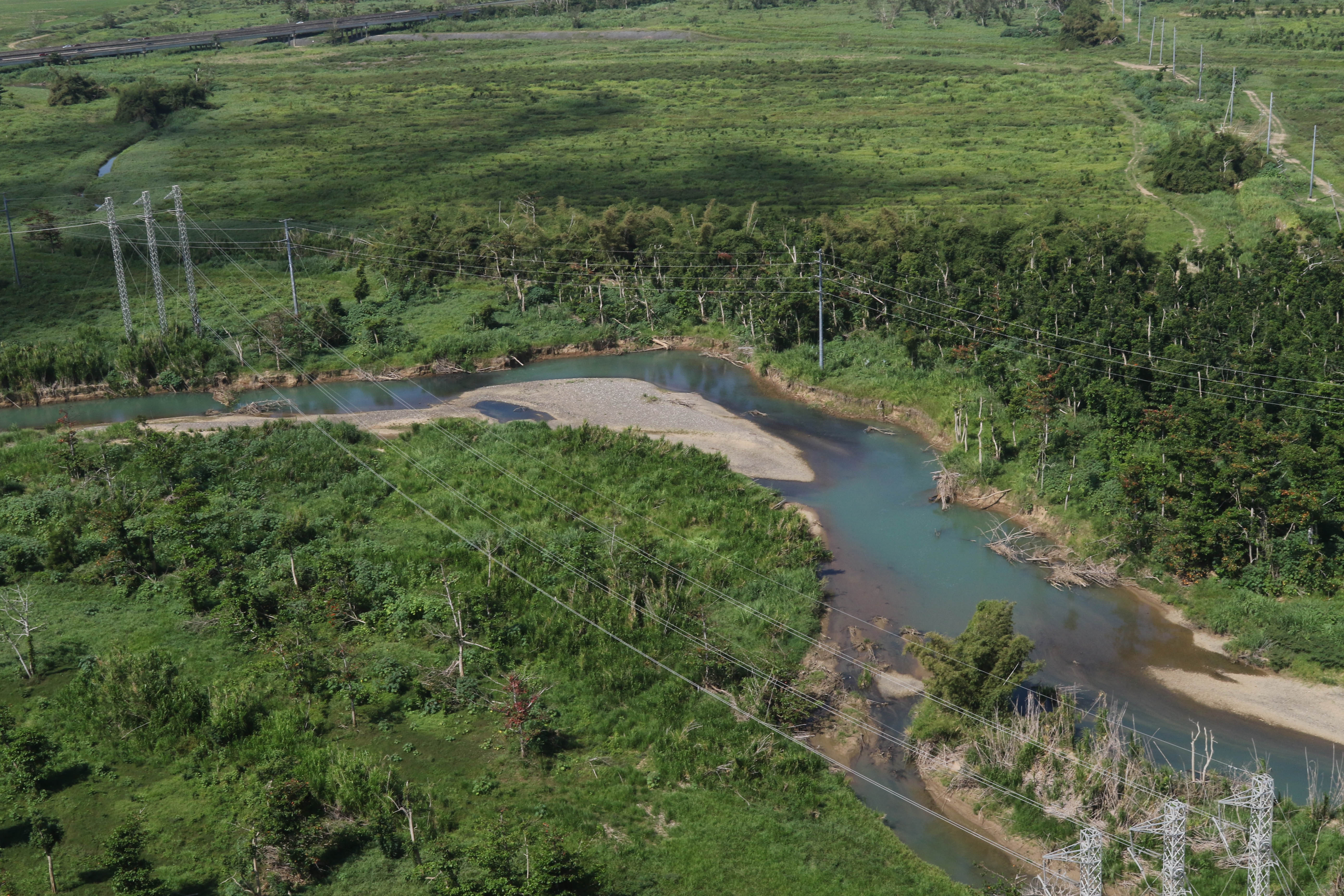 Electric power pole placement in Naranjito, Puerto Rico by the USACE